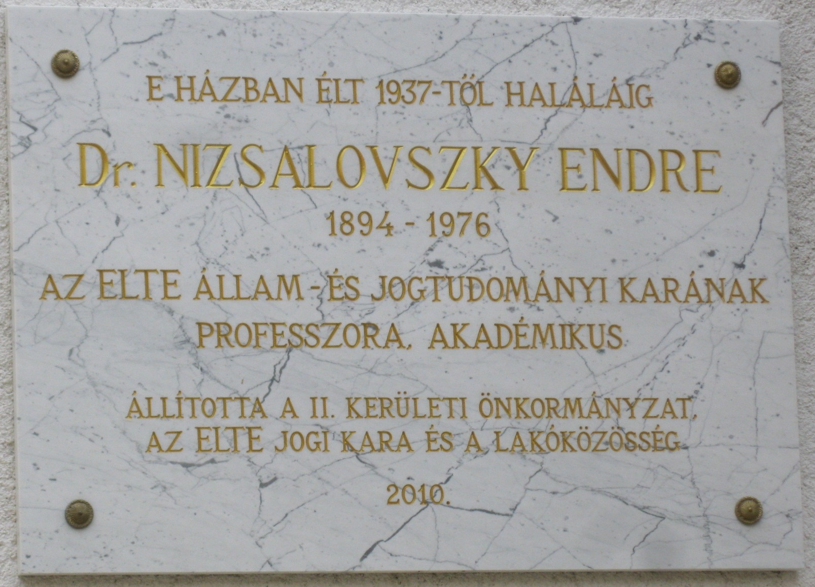 Endre Nizsalovszky commemorative plaque in Budapest District II, Borbolya Street No 5.